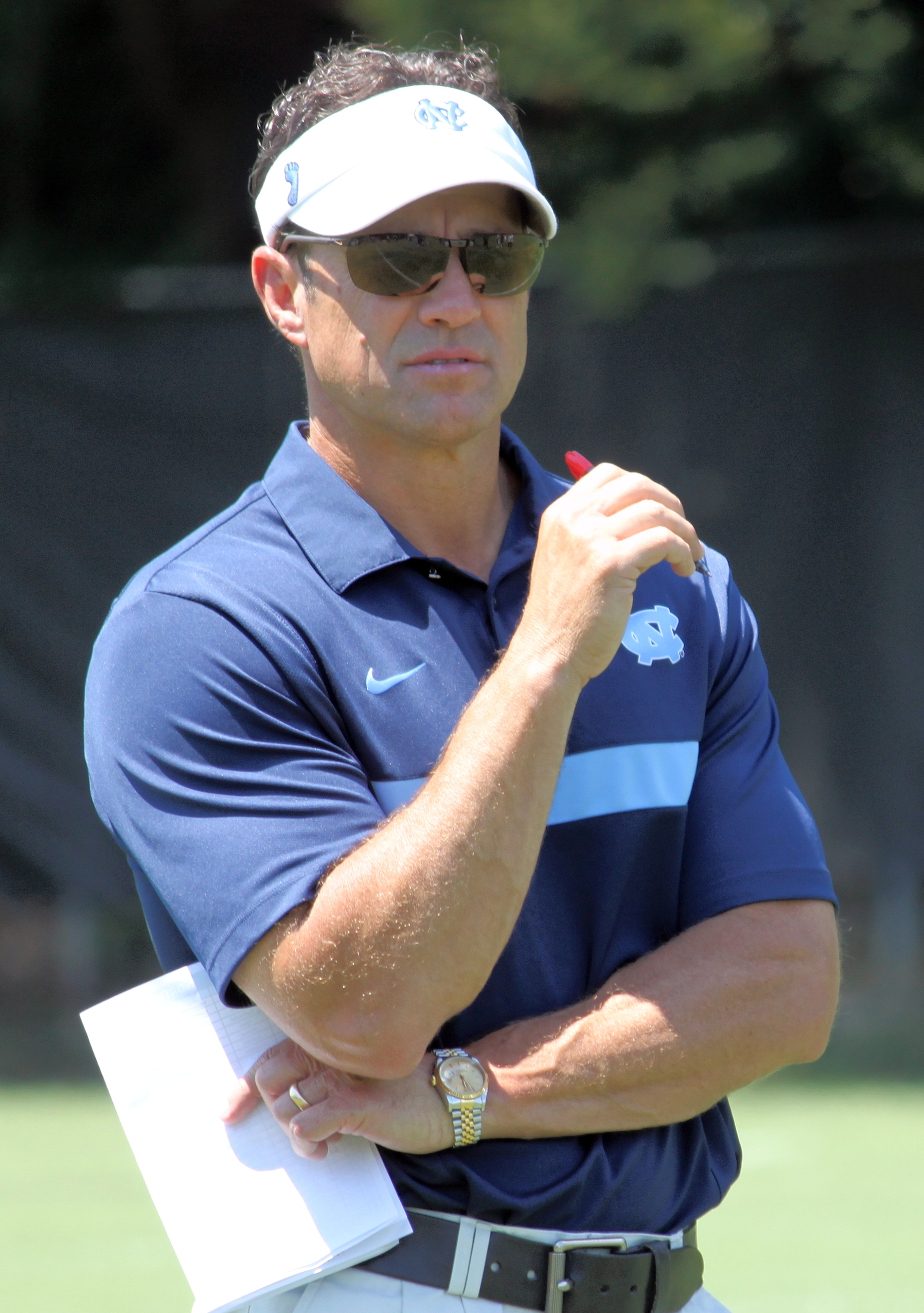 Larry Fedora, head coach of the North Carolina Tar Heels